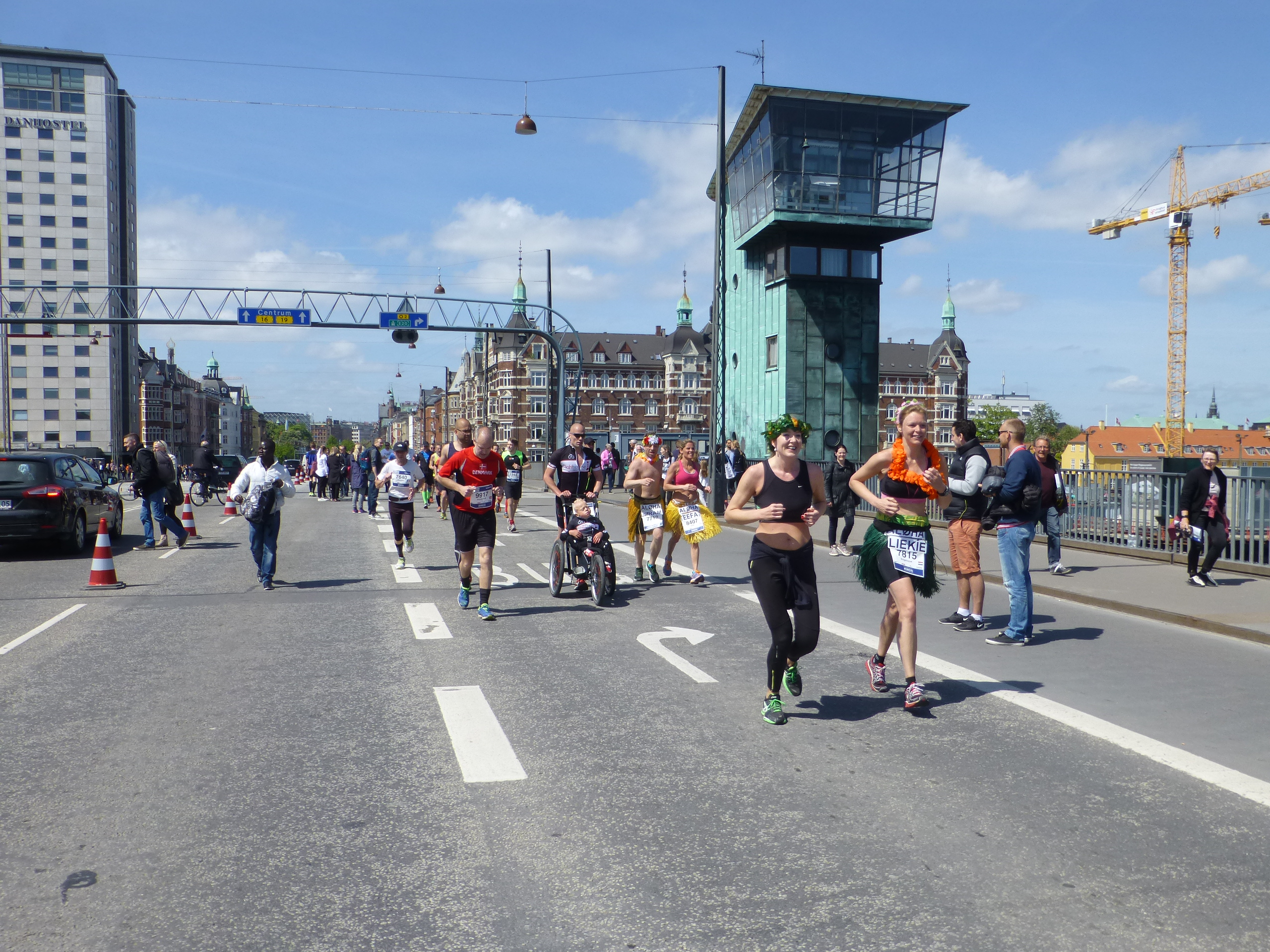 Copenhagen Marathon on Langebro. They have been running for 41 kilometer at this point.